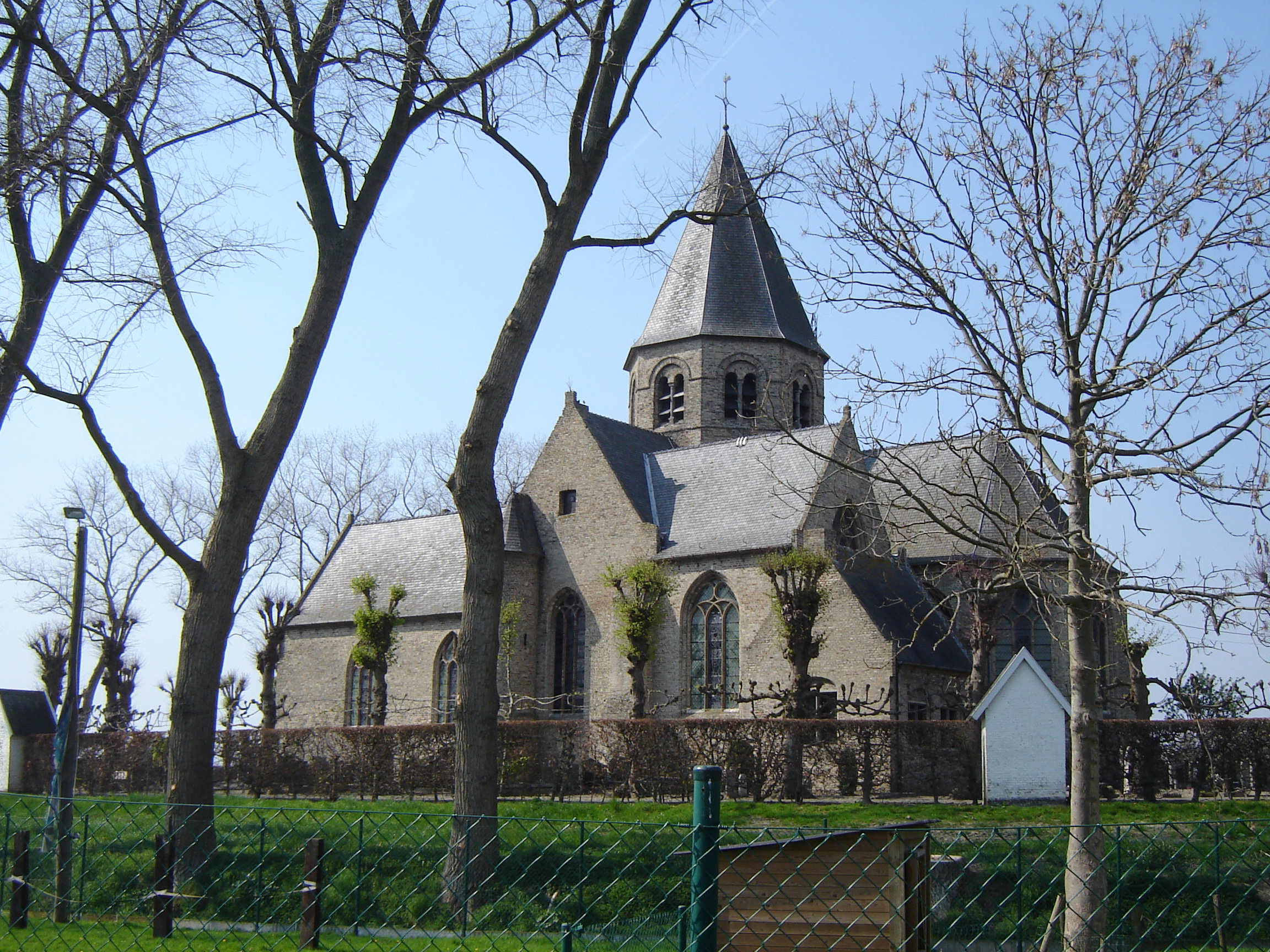 Church of Saint Martin in Werken, Kortemark, West-Flanders, Belgium